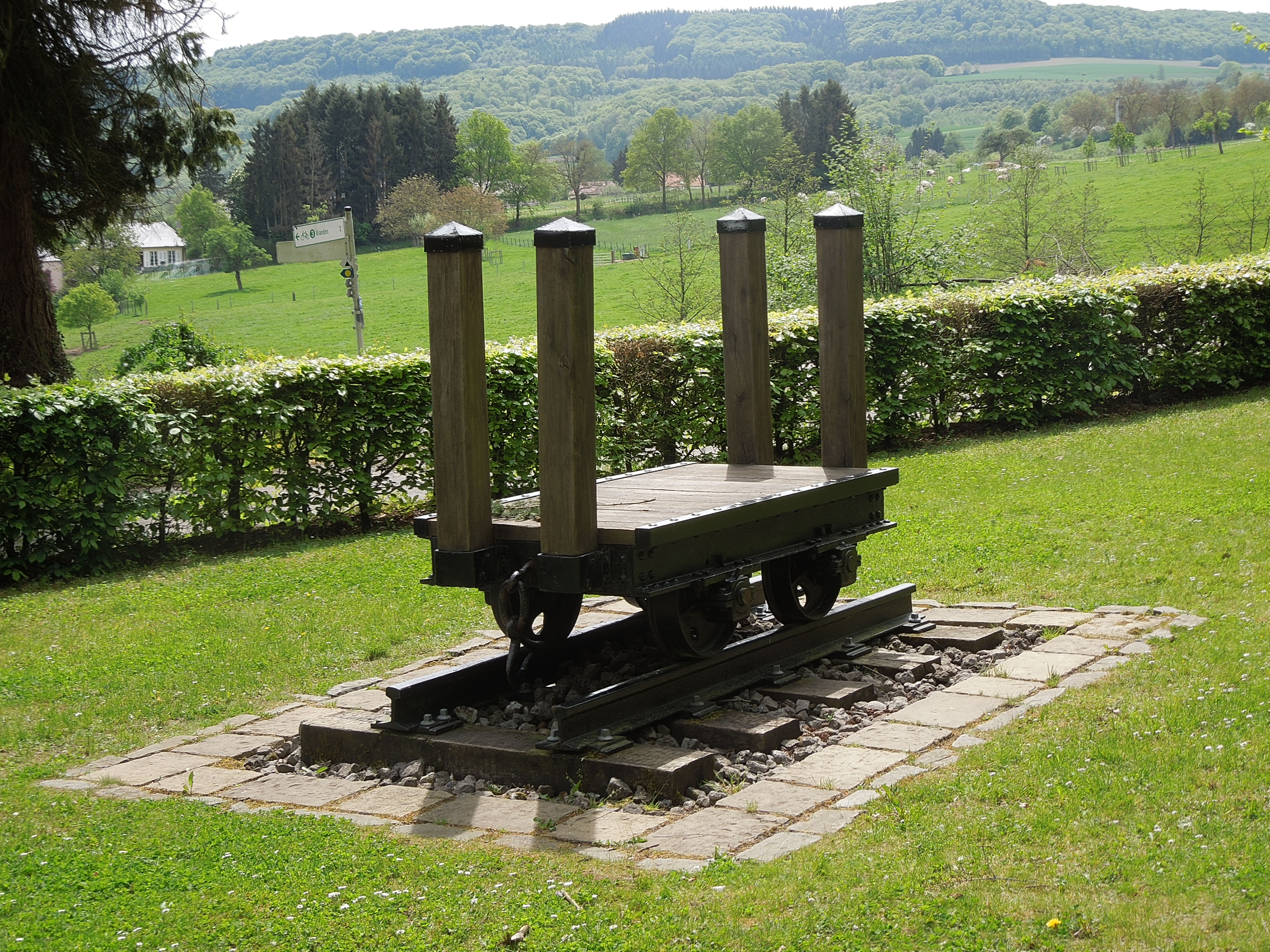 A old wagon at the station Bettel (Luxemburg). The line was called Benny (from Diekirch to Vianden).